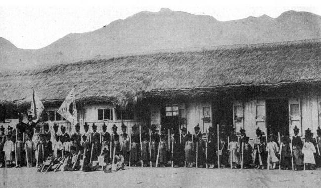 1909 Korean English school, in Gaeseong